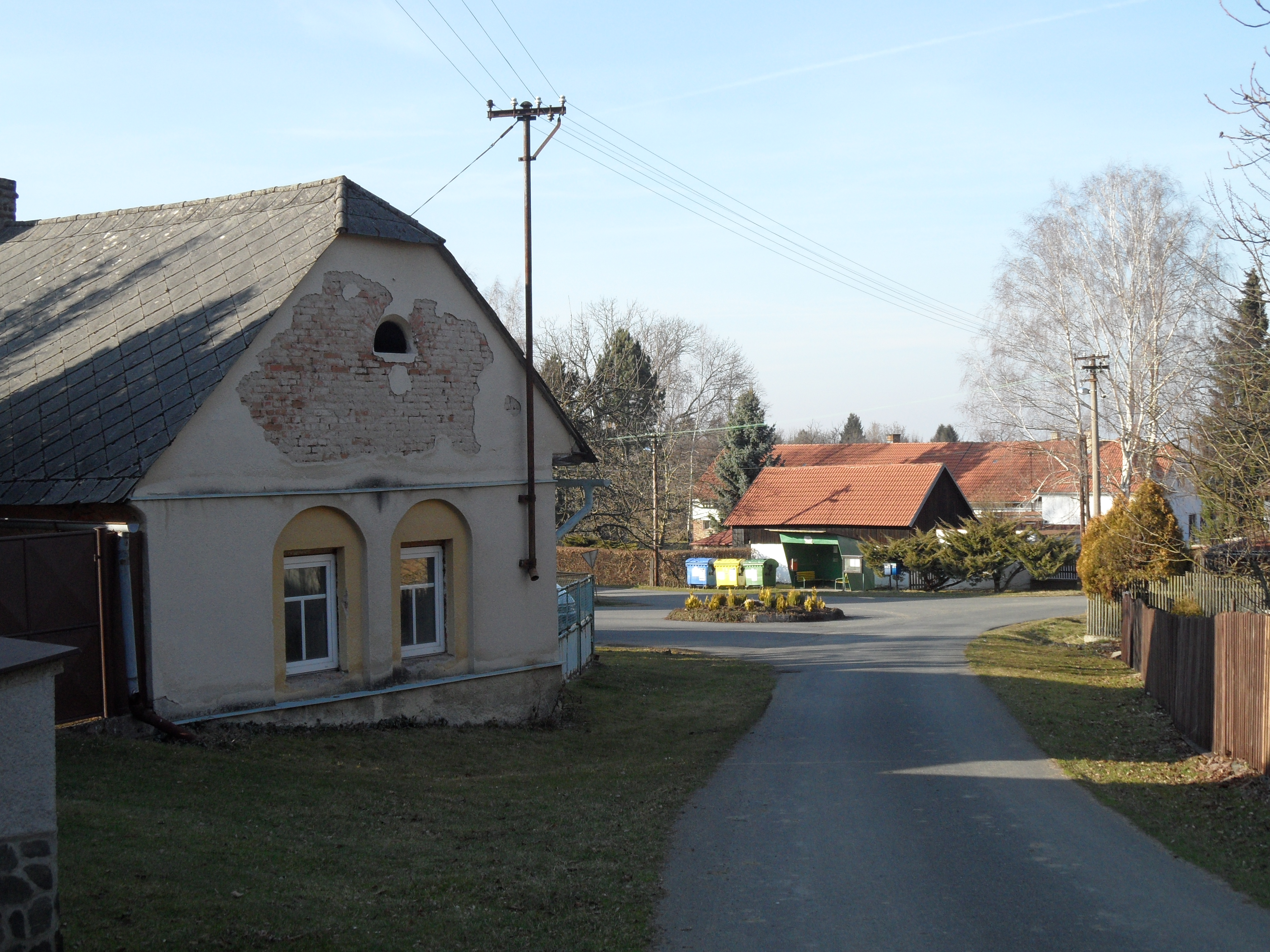 Čejkovice D. View to Village Square. Kutná Hora District, the Czech Republic.